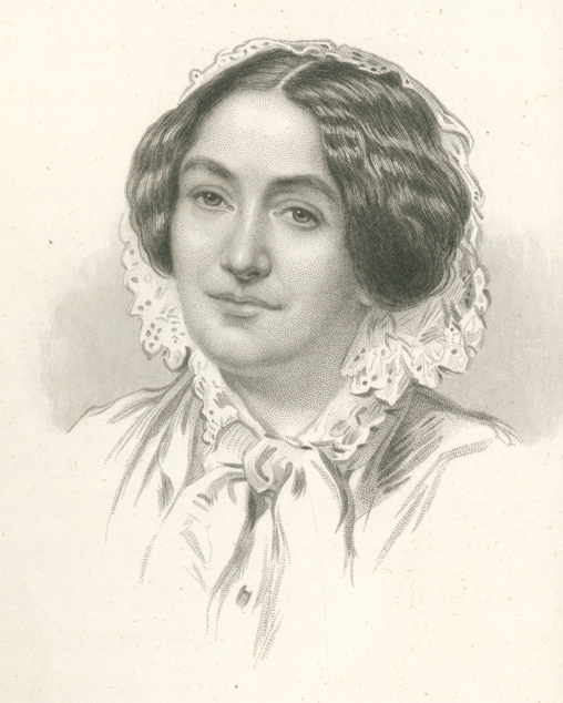 Caroline M. Kirkland (1801-1864) an American writer and editor, The Library Company. Published in: Hart, John Seely. The female prose writers of America. Philadelphia: E. H. Butler & Co., 1852, opposite page 105.